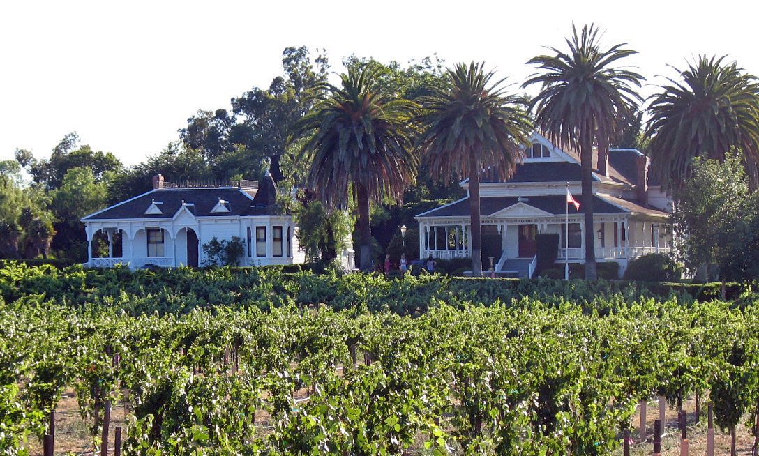 National Register of Historic Places listings in Alameda County, California. Ravenswood Historic Site, 2647 Arroyo Rd., Livermore, CA. Photographed July 26, 2009 from the west side of Arroyo Rd. between Superior Dr. and Ascalano Ln.